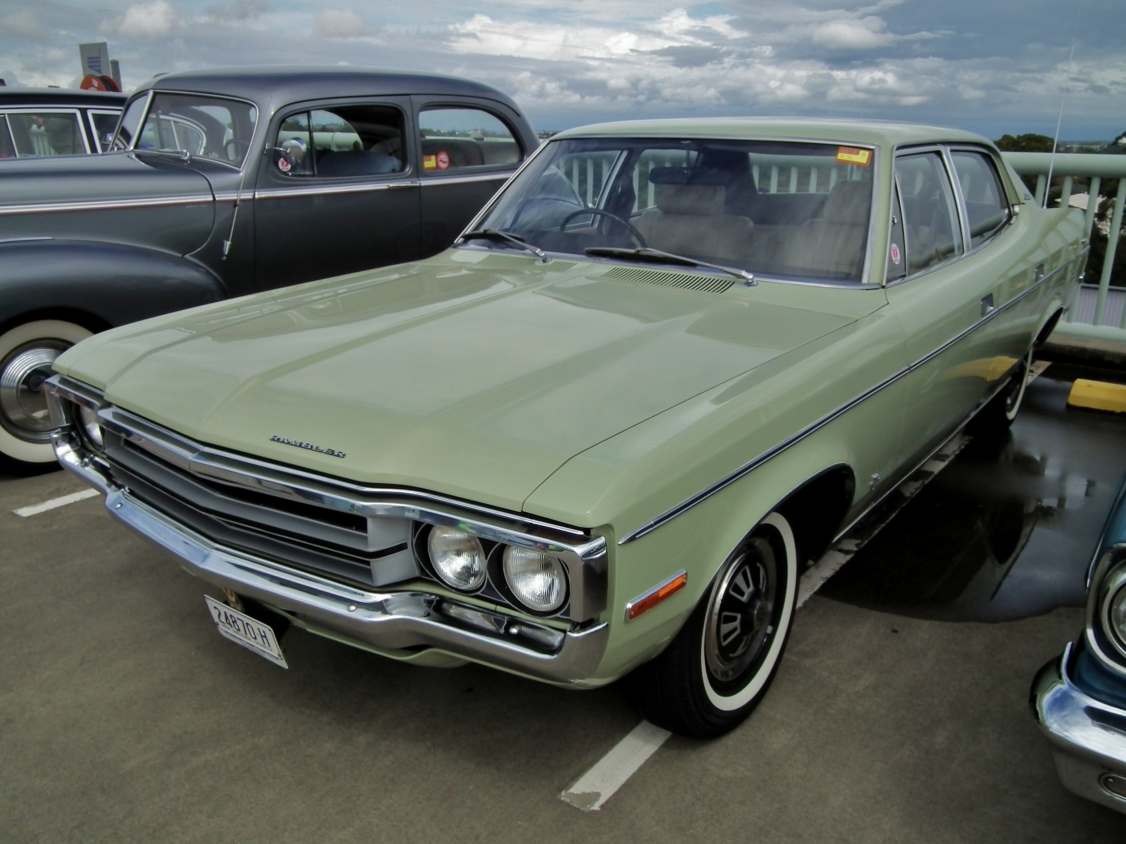 1972 Rambler Matador 360 sedan. Australian assembled. Taken at the 2012 New South Wales All American Day, held at Castle Towers Shopping Centre, Castle Hill, Sydney.